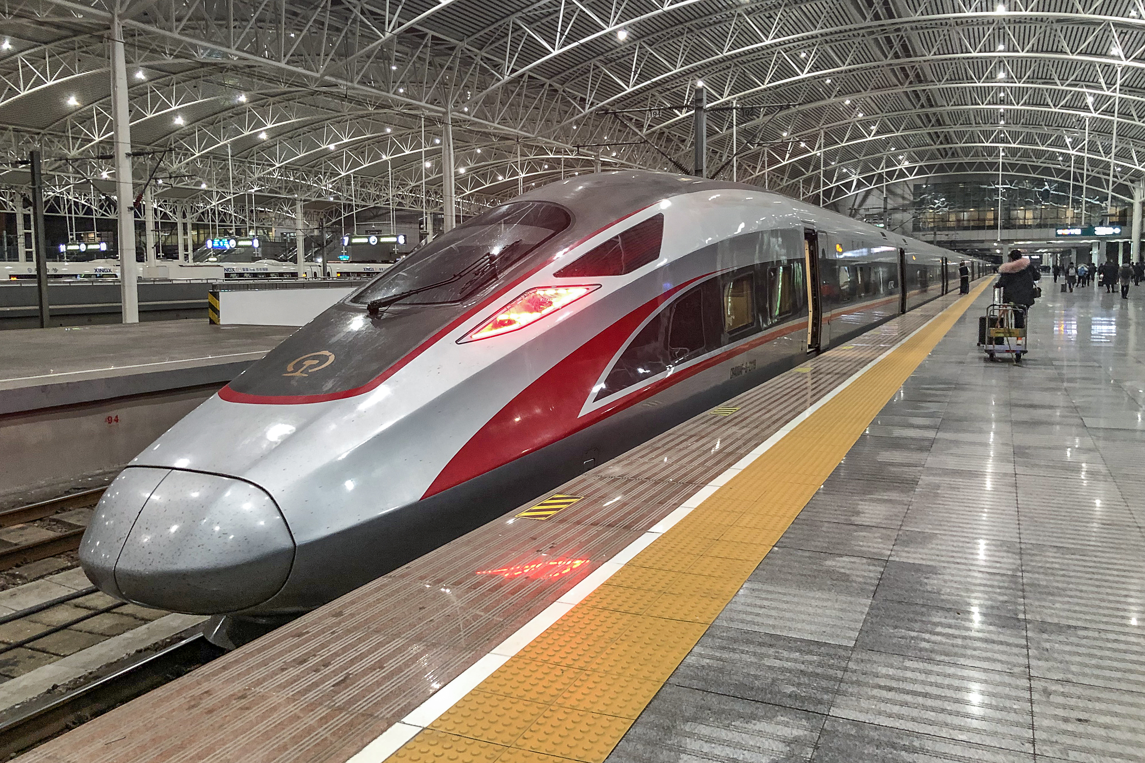 G21 from Beijing South, stopping at Platform 1 (the southernmost track).